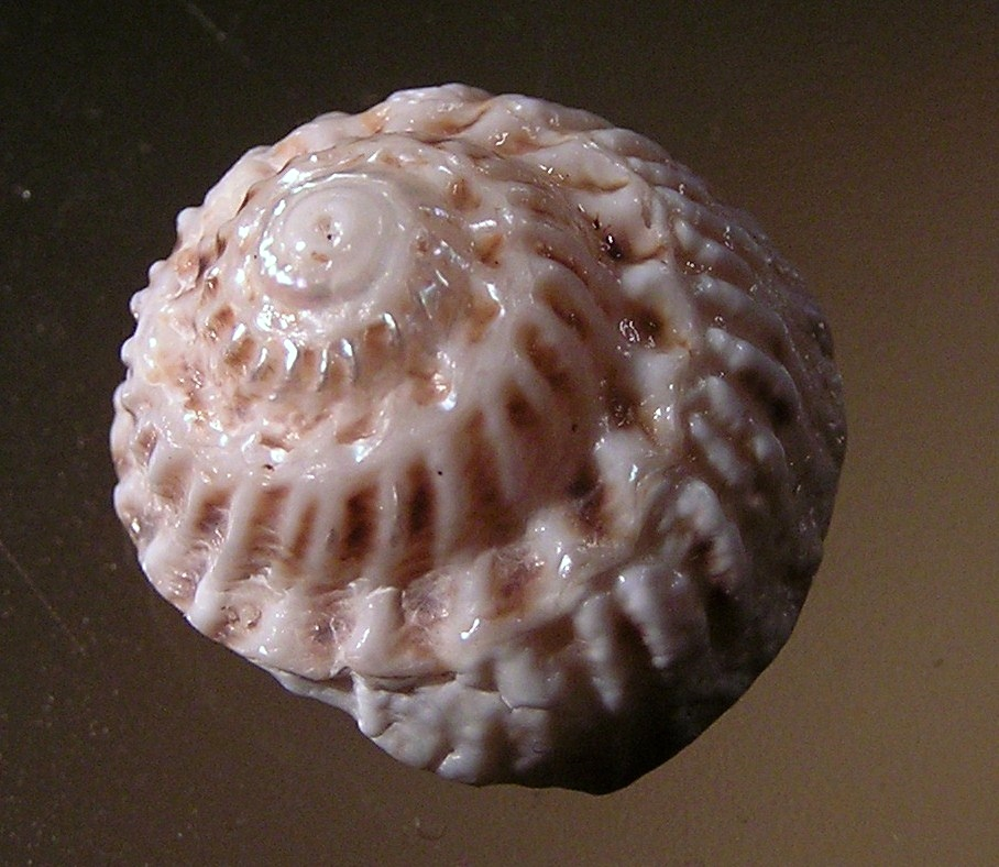 Bellastraea squamifera (Koch, 1844) , a turban snail from the family Turbinidae; Tasmania